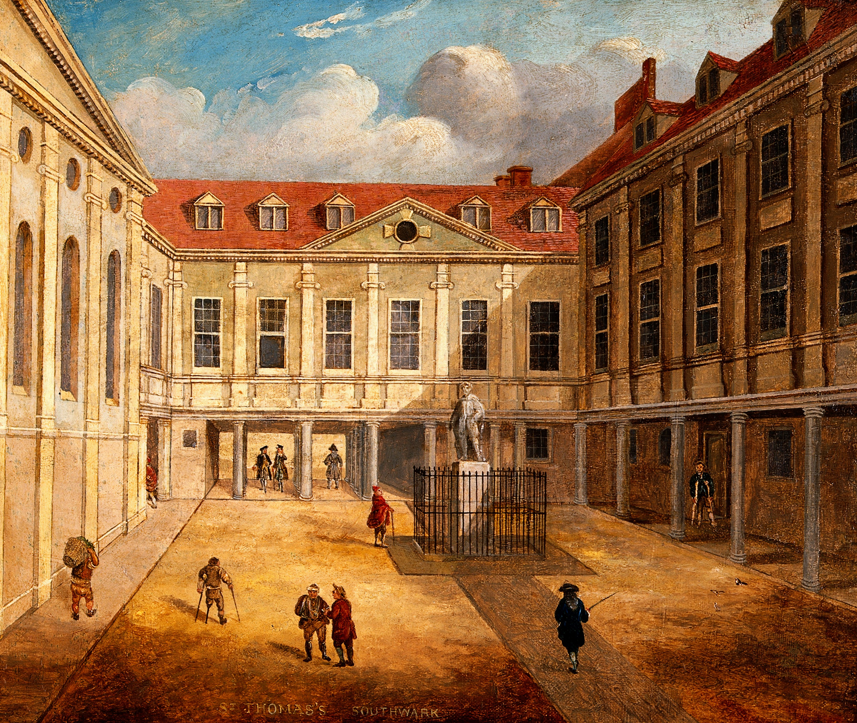 St Thomas' Hospital, London. Oil painting. Iconographic Collections